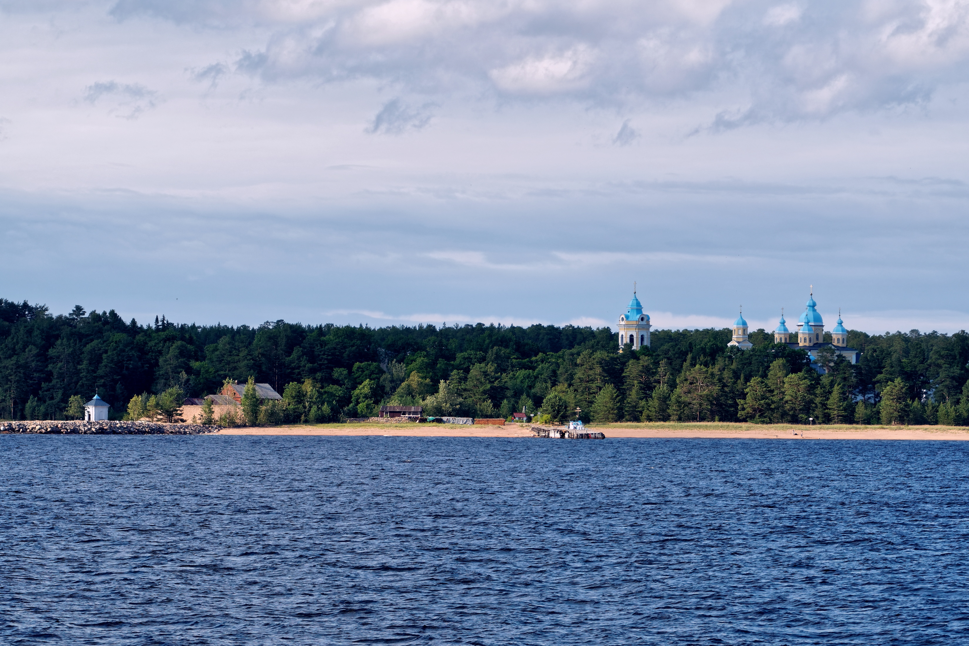 Lake Ladoga. Island Konevets